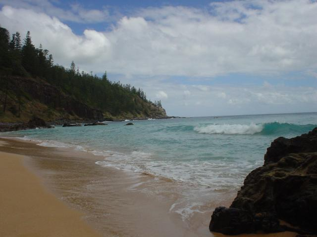 A photograph of Anson Bay, Norfolk Island.